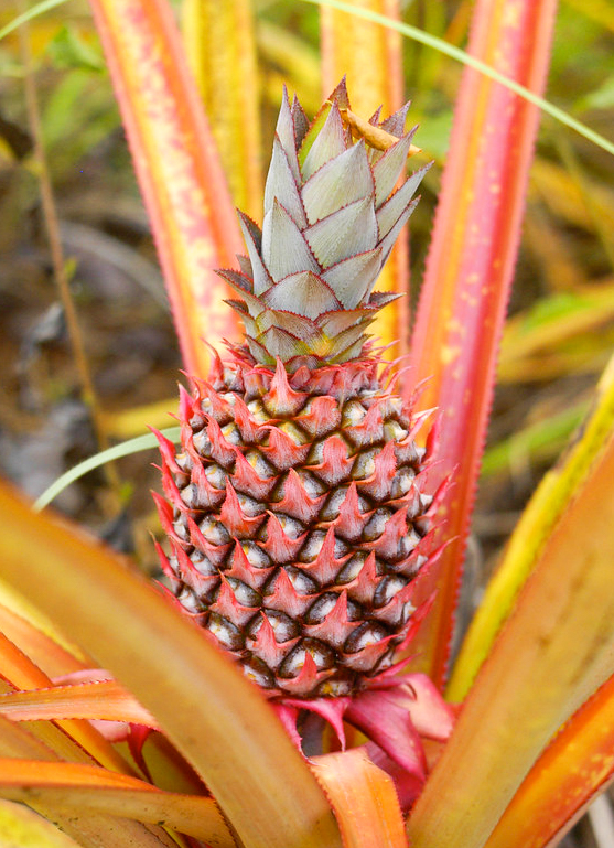 Red Spanish pinneaple from Palawan, Philippines